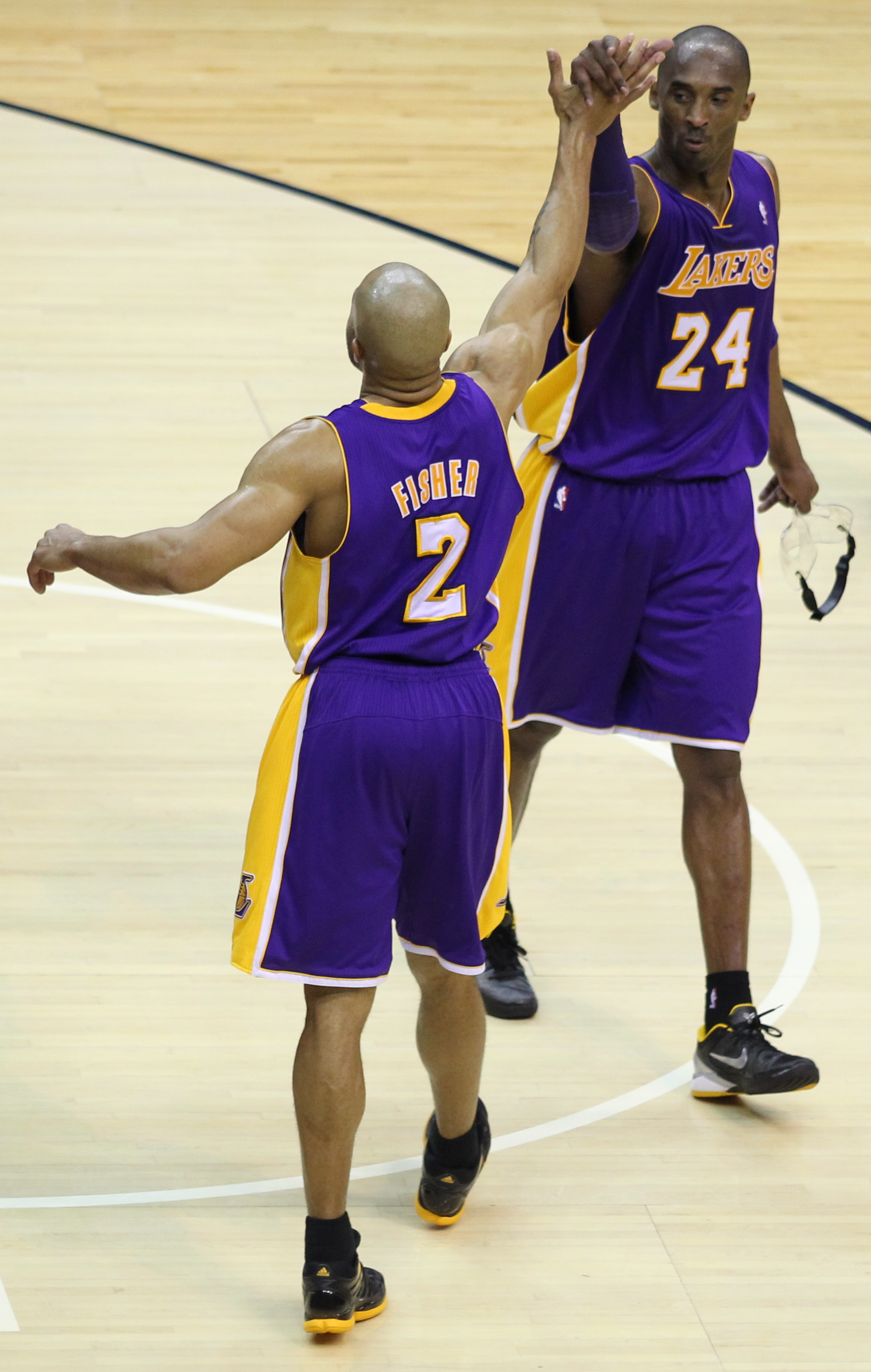 Derek Fisher and Kobe Bryant of the Los Angeles Lakers during a game against the Washington Wizards at the Verizon Center on March 7, 2012 in Washington, DC.